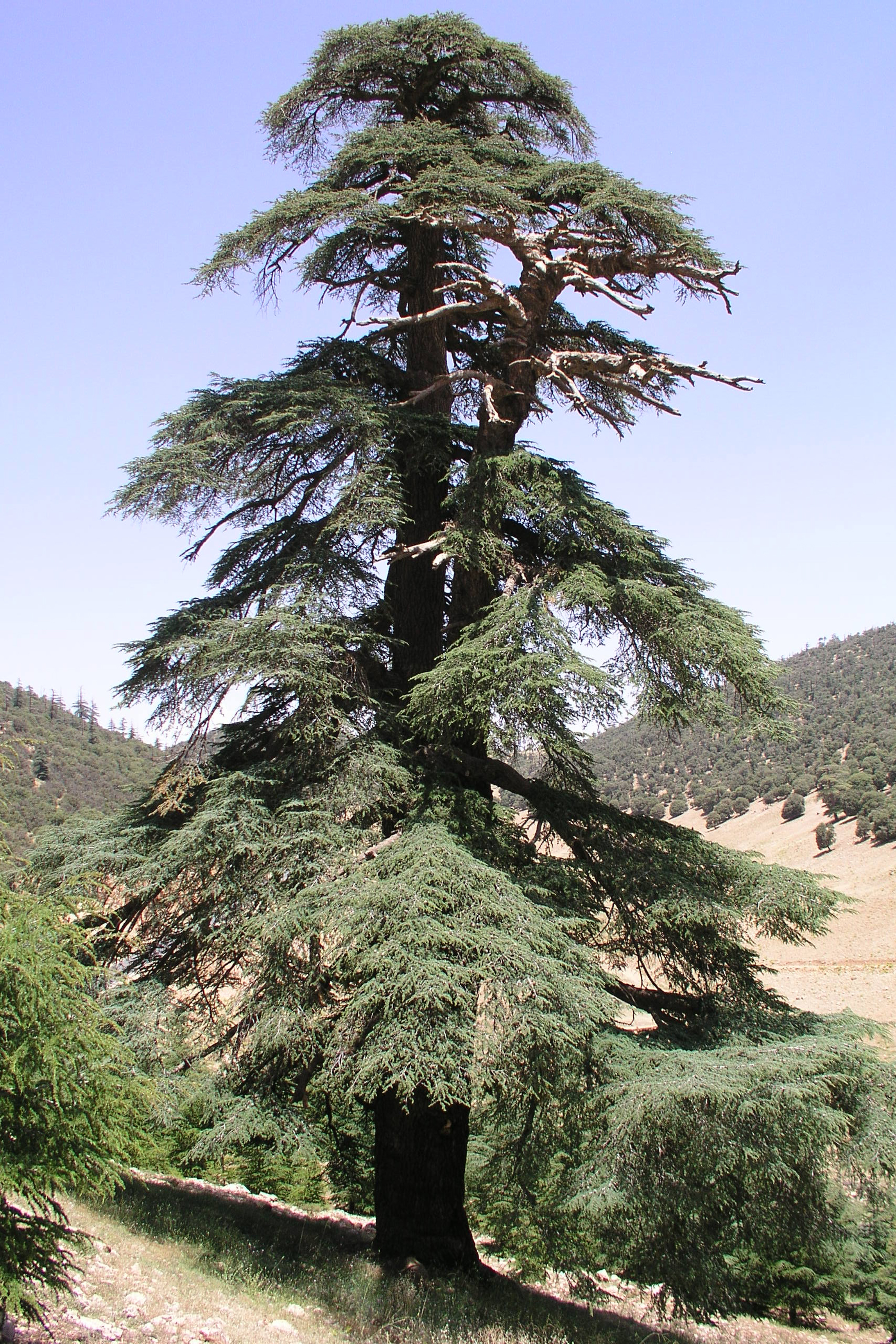 Old Atlas Cedar Cedrus libani subsp. atlantica, in the Atlas mountains near Azrou, Morocco.